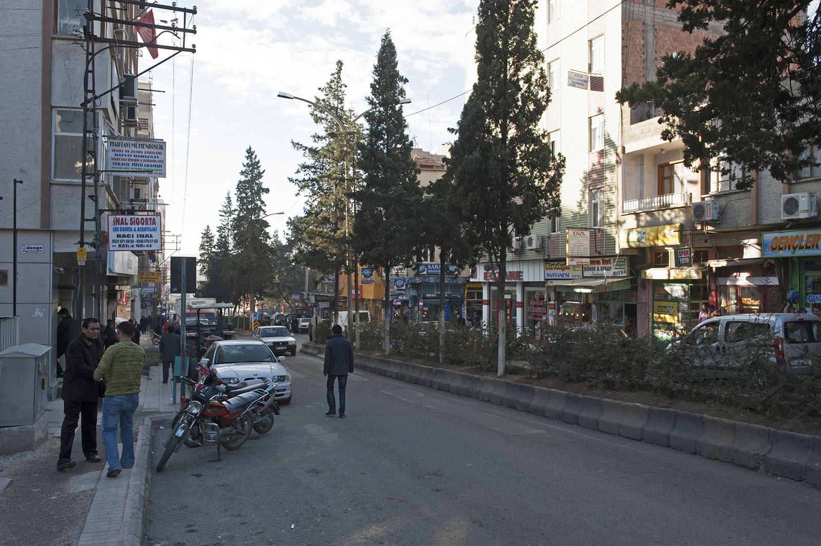 On a visit to nearby Zeugma the town of Nizip provided some sights, in particular what must have been a rather large church, in 2008 out of use, and a pastoral centre. Some houses showed fine architecture.